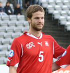 Jonathan Rossini Swiss U21